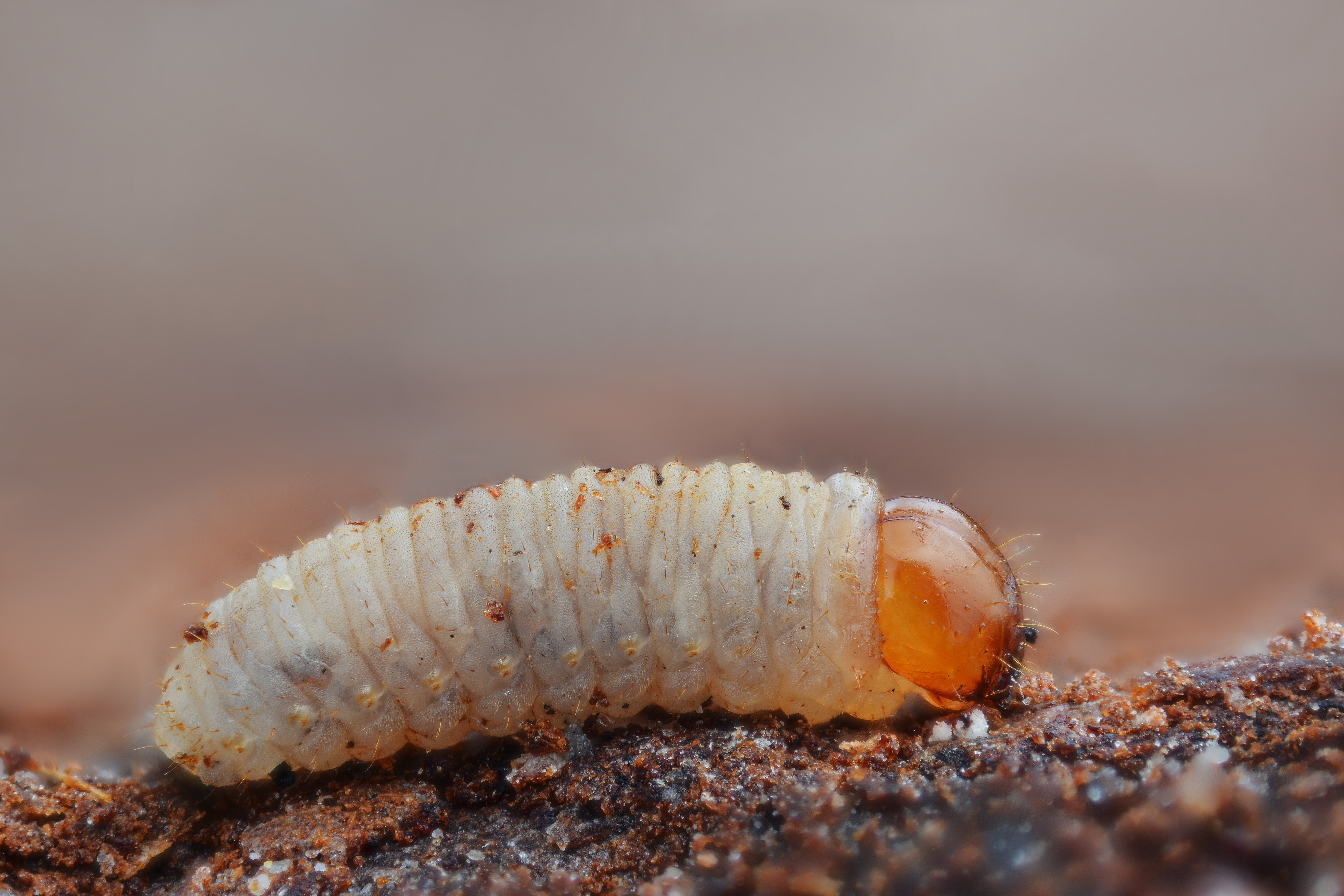 Larvae of the barkbeetle Dendroctonus micans (Coleoptera : Scolytidae) Schneider Kreuznach Componon 28 mm f/4 at f/4 reversed on extension tubes Focus stack of 112 pictures